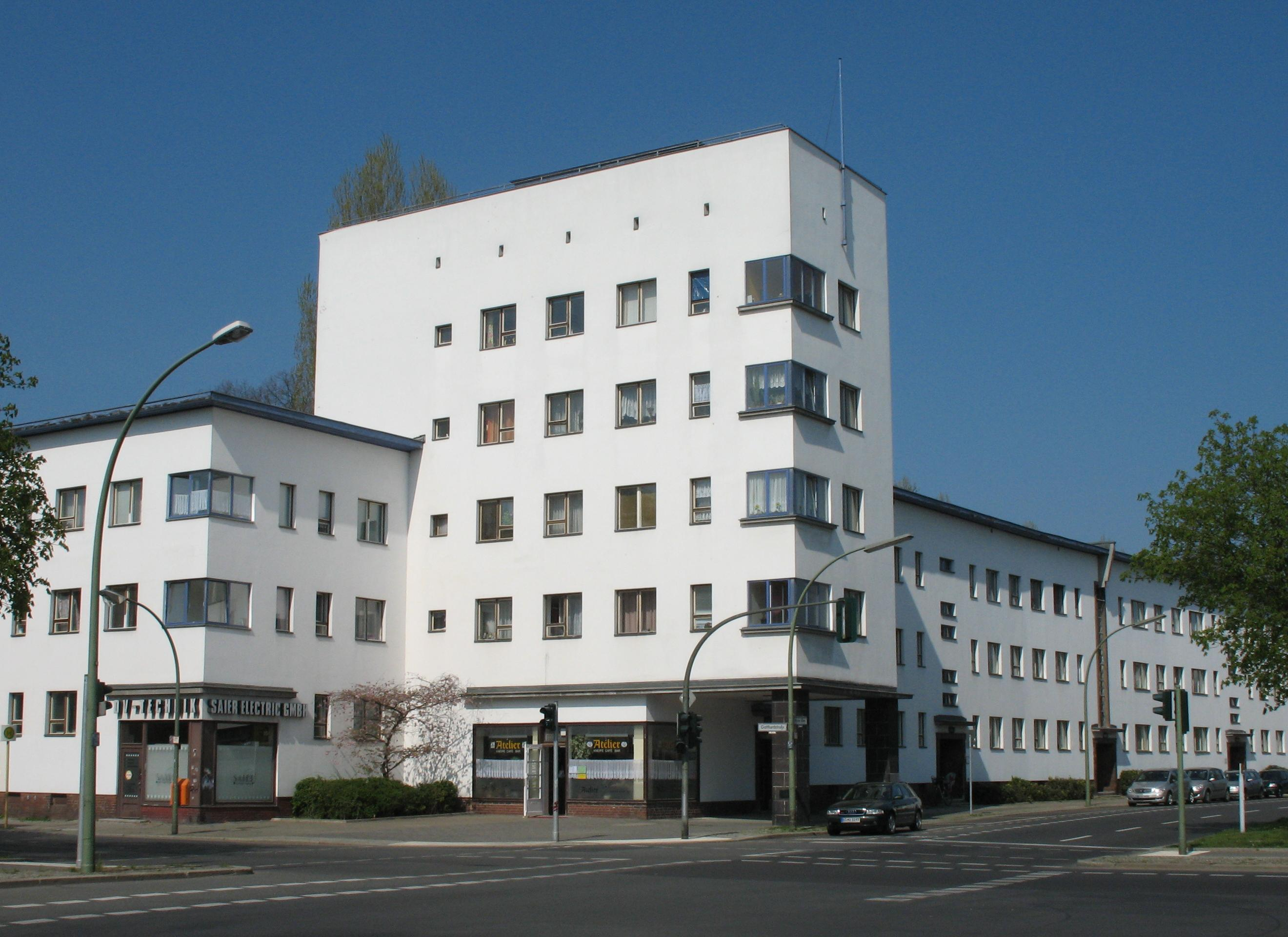 Weiße Stadt (White City) in Berlin-Reinickendorf, Germany. The buildings on the picture were planned by Bruno Ahrends (1878–1948)